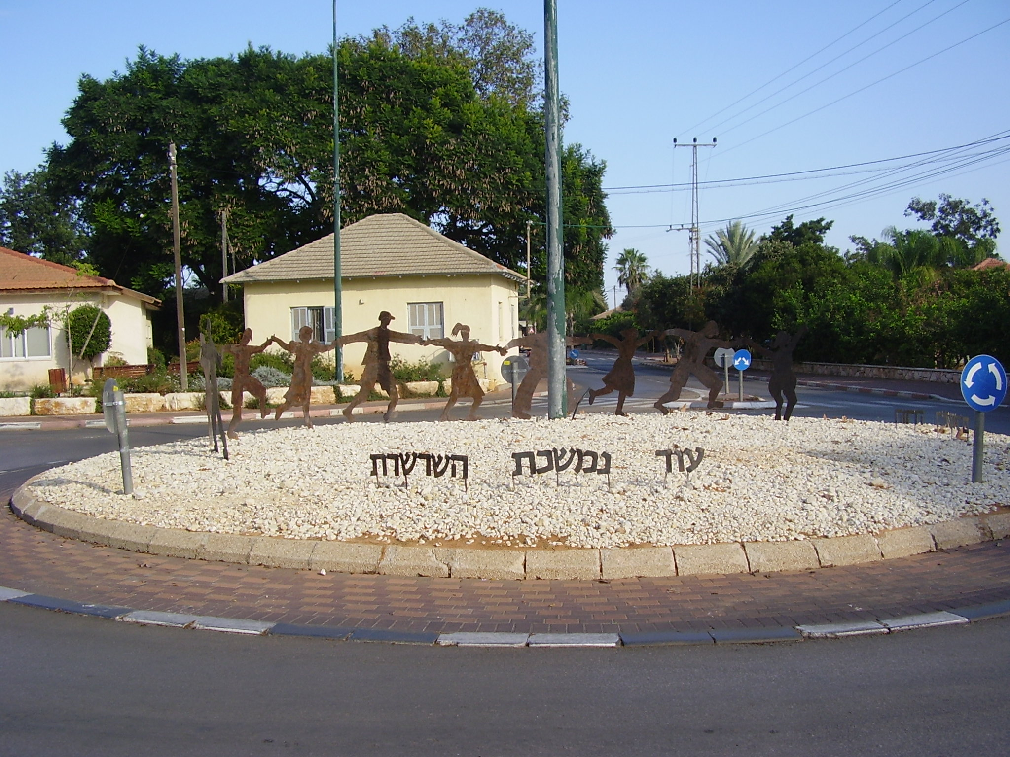 square in herut